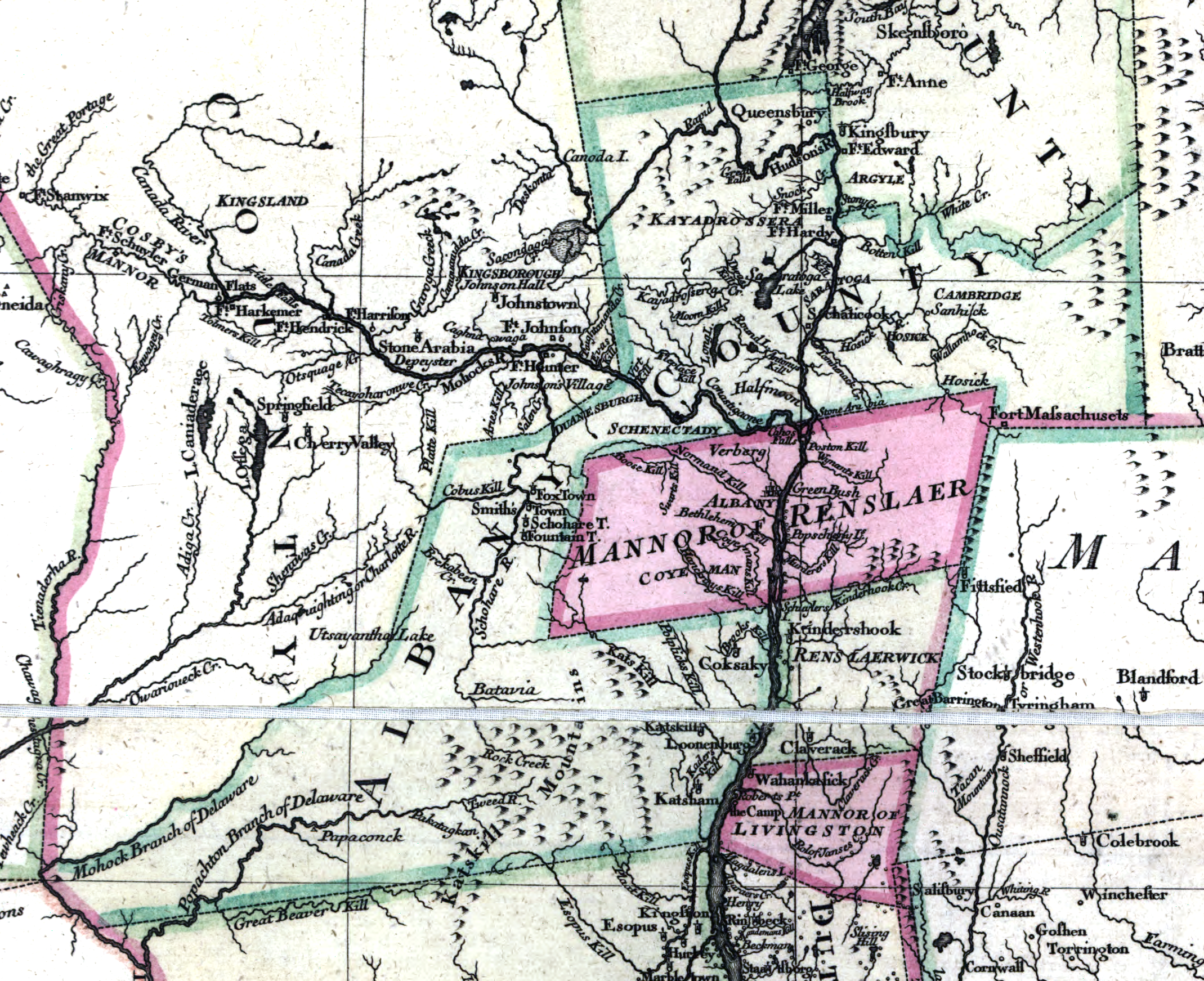 Map of the provinces of New York and New Jersey highlighting Albany County